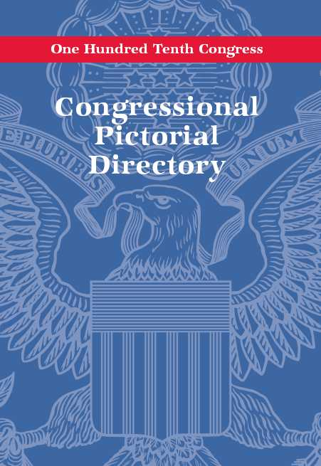 Cover art for the Congressional Pictorial Directory, 110th Congress, June 2007. (Heavy compression)